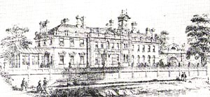 Gordon House, Isleworth.